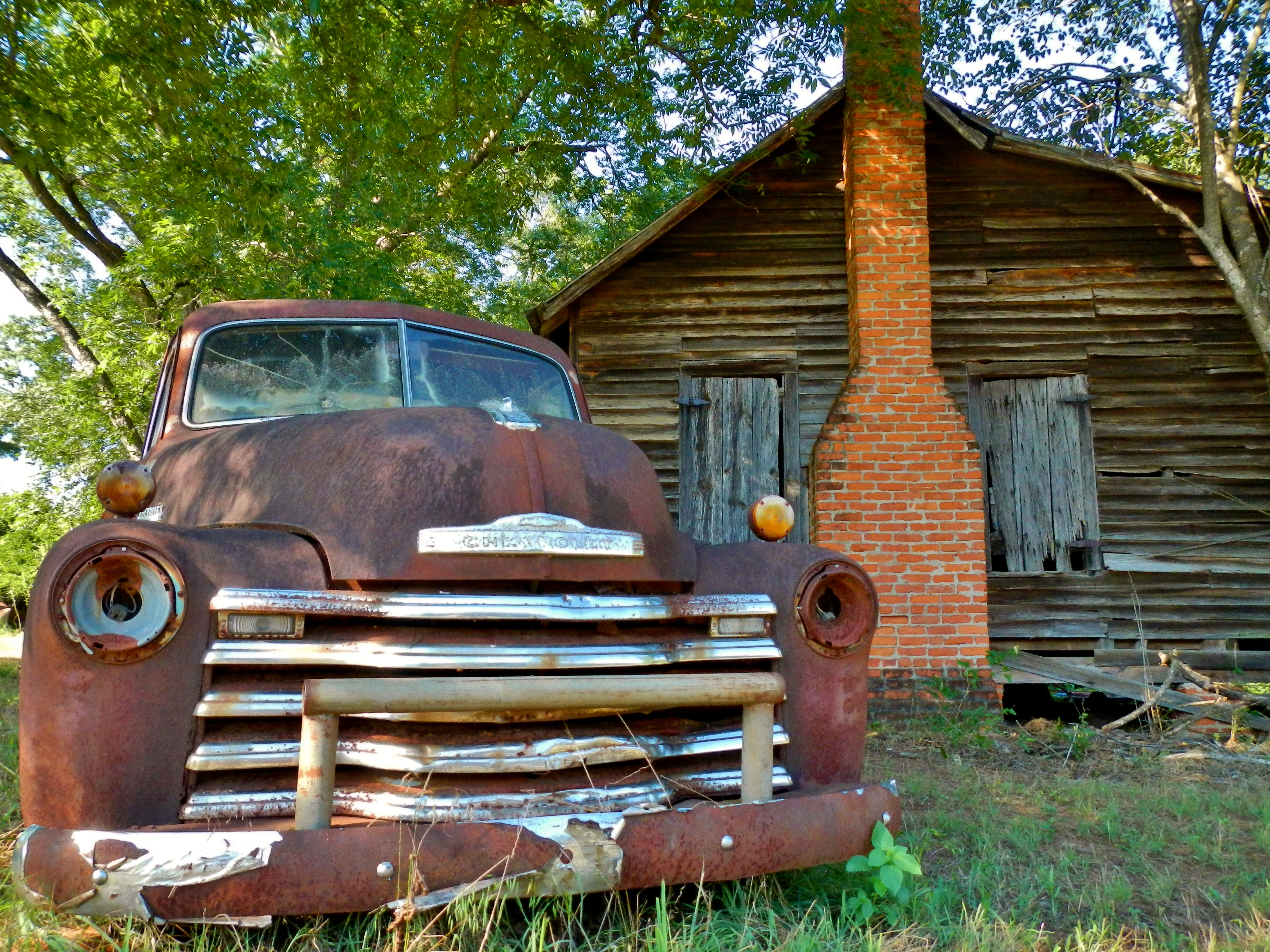 This is a photo of Weston, GA.